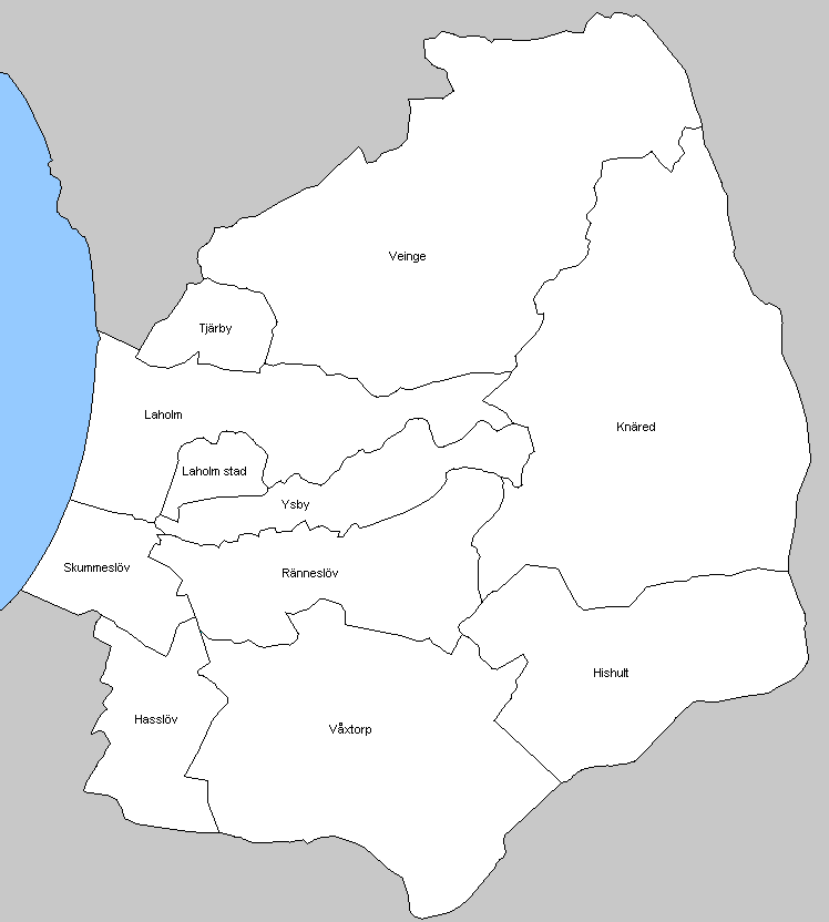 Parishes in Laholm municipality